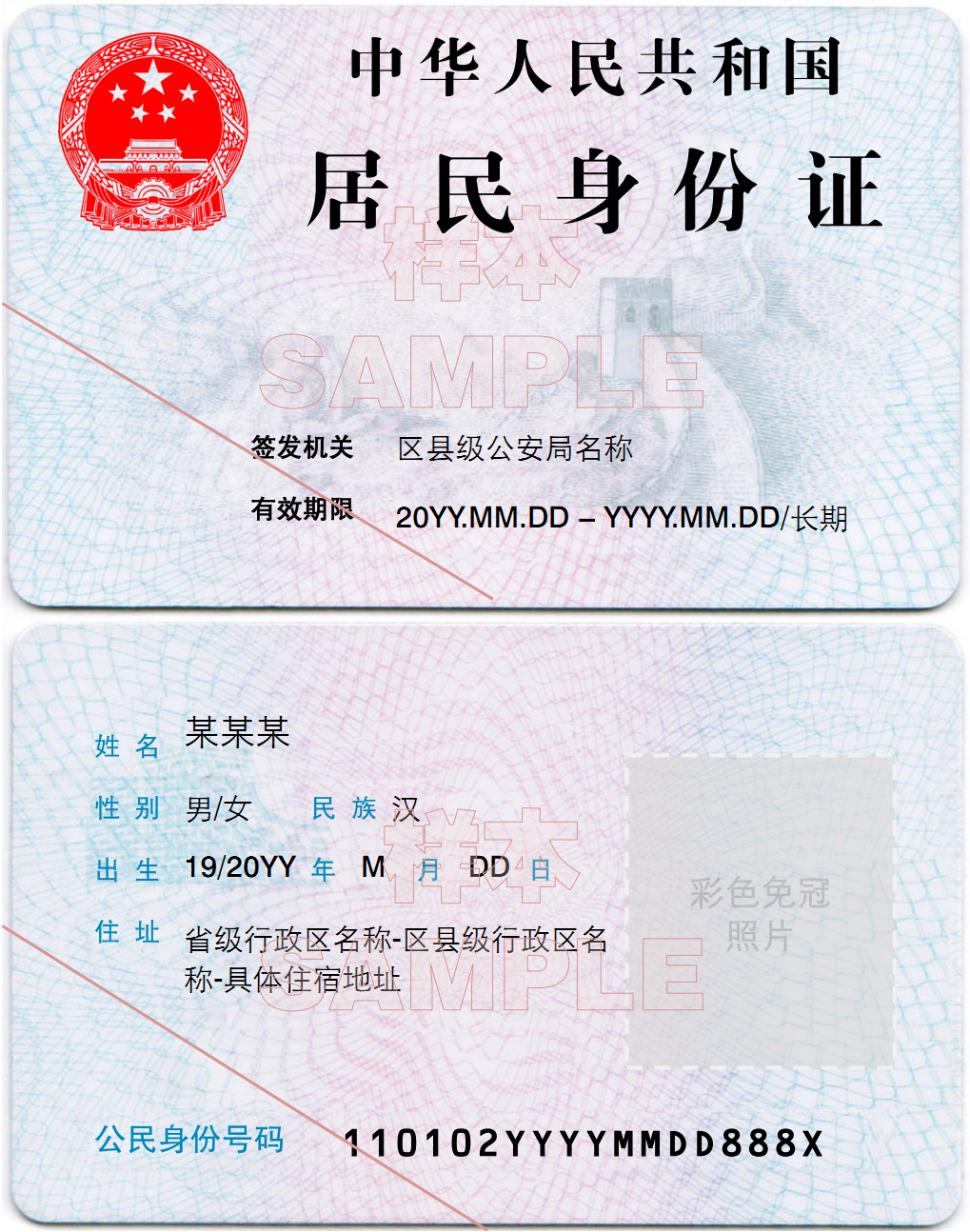 The People's Republic of China resident identity card (SAMPLE)